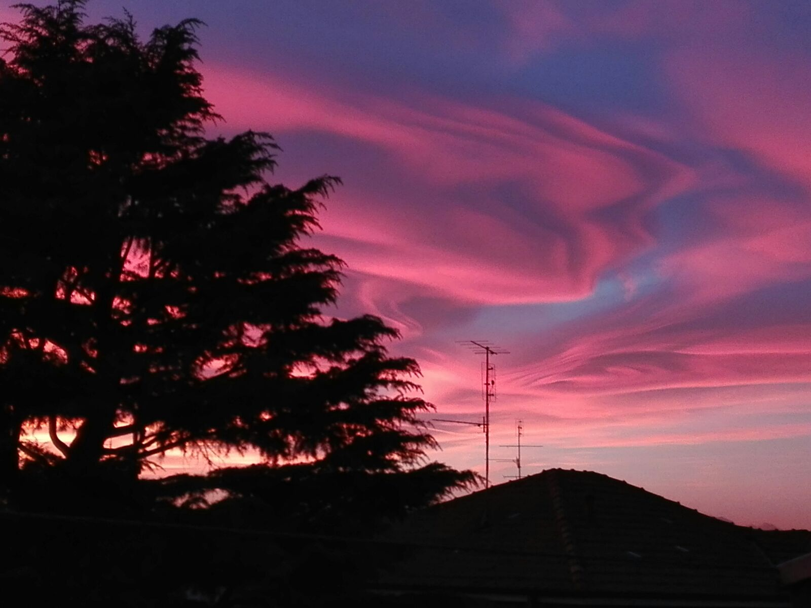 The atmosphere of Milan is characterized by the phenomenon of scattering, which is the dispersion of light, thanks to micro-particles. In this case, atmospheric aerosol is responsible of the phenomenon. Aerosol is composed of particulates which water condenses on. The visible consequenses have been the wonderful sunsets of last month.